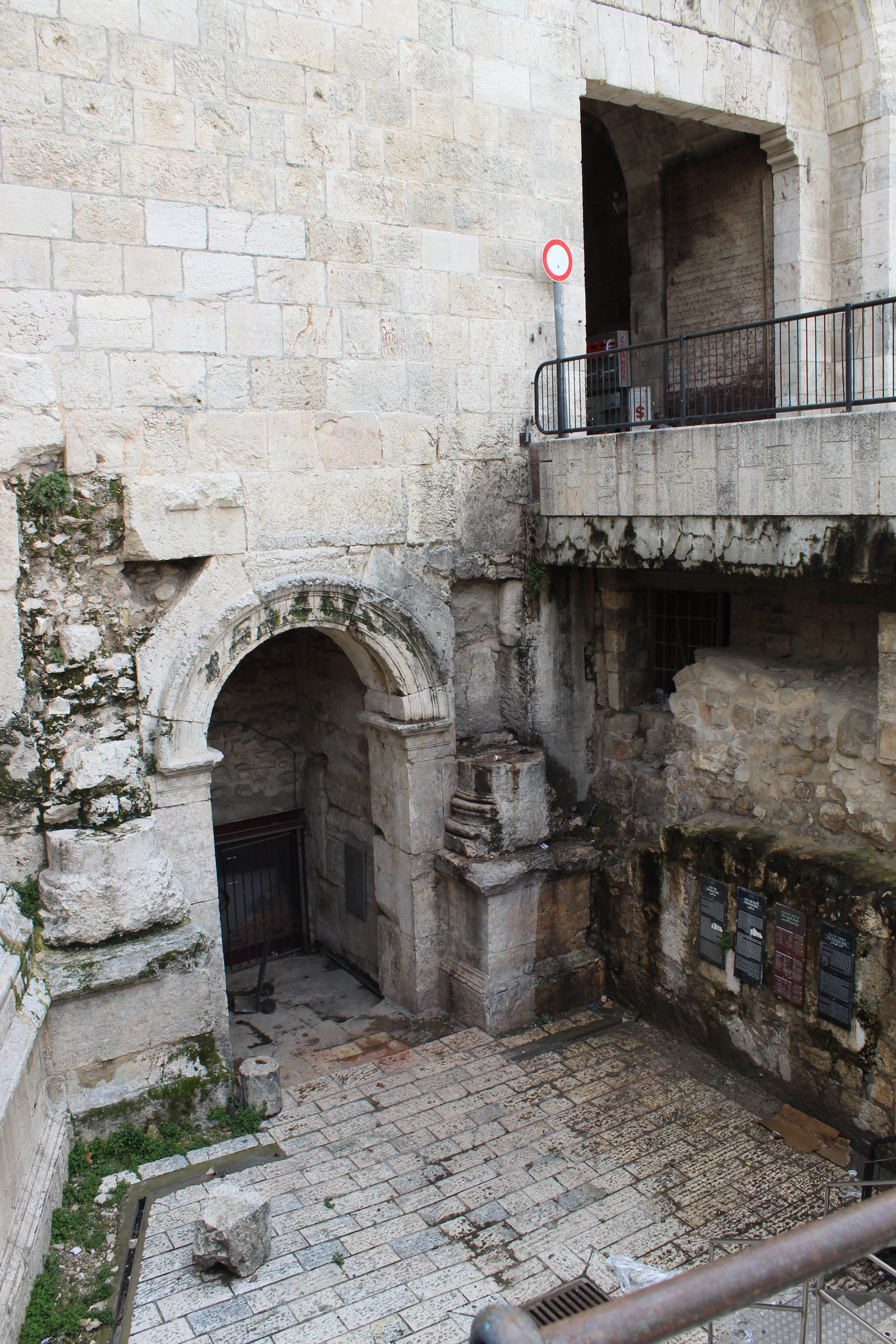 Only remaining Roman era Gate in Jerusalem's western-most wall of the Old City (Damascus Gate).